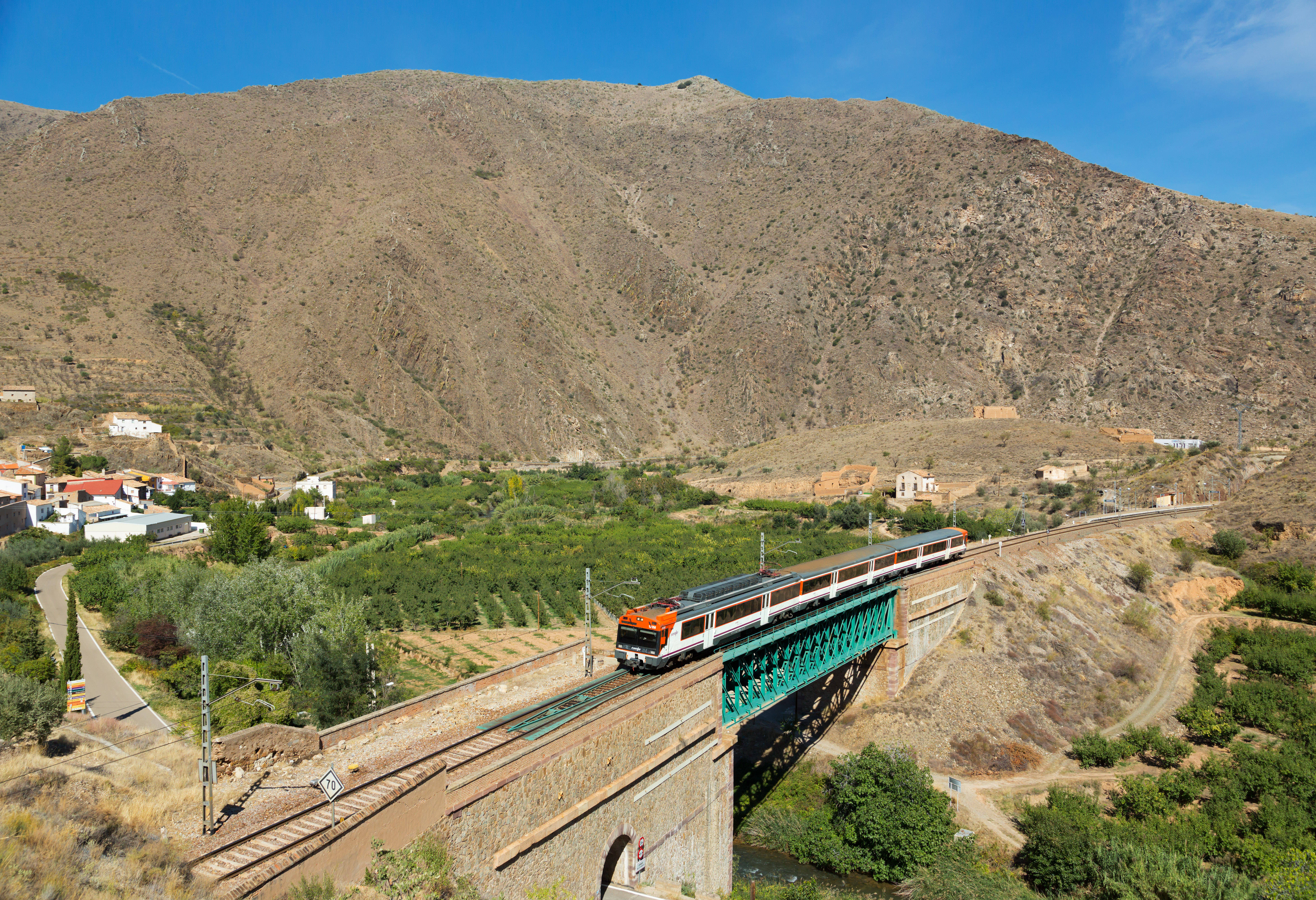 A RENFE class 470 is taking the old line from Zaragoza to Calatayud. Picture taken at Embid de Jalón, Spain.